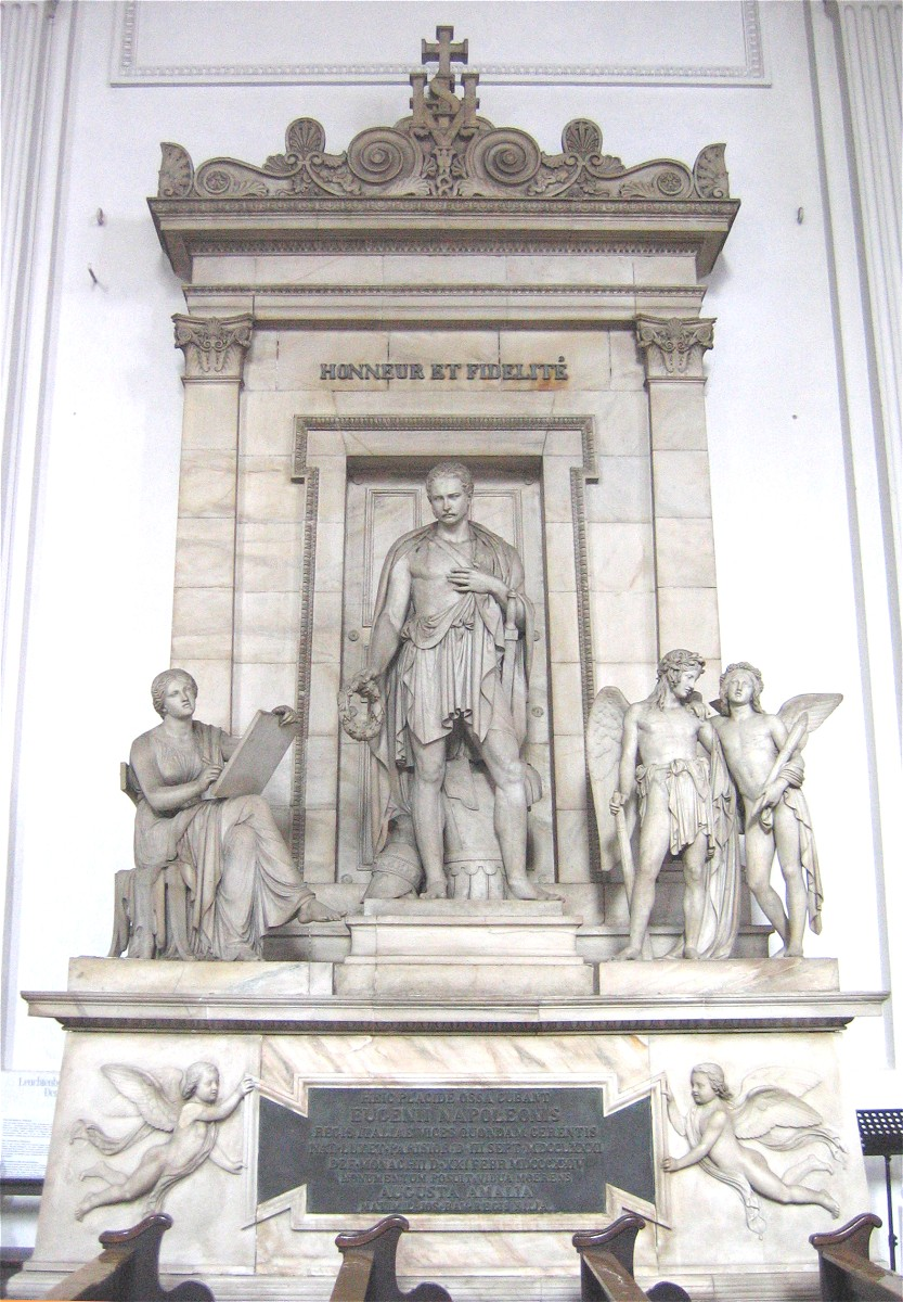 Tomb of Eugène de Beauharnais with Auguste, sculpted by Bertel Thorvaldsen, St. Michael (München)